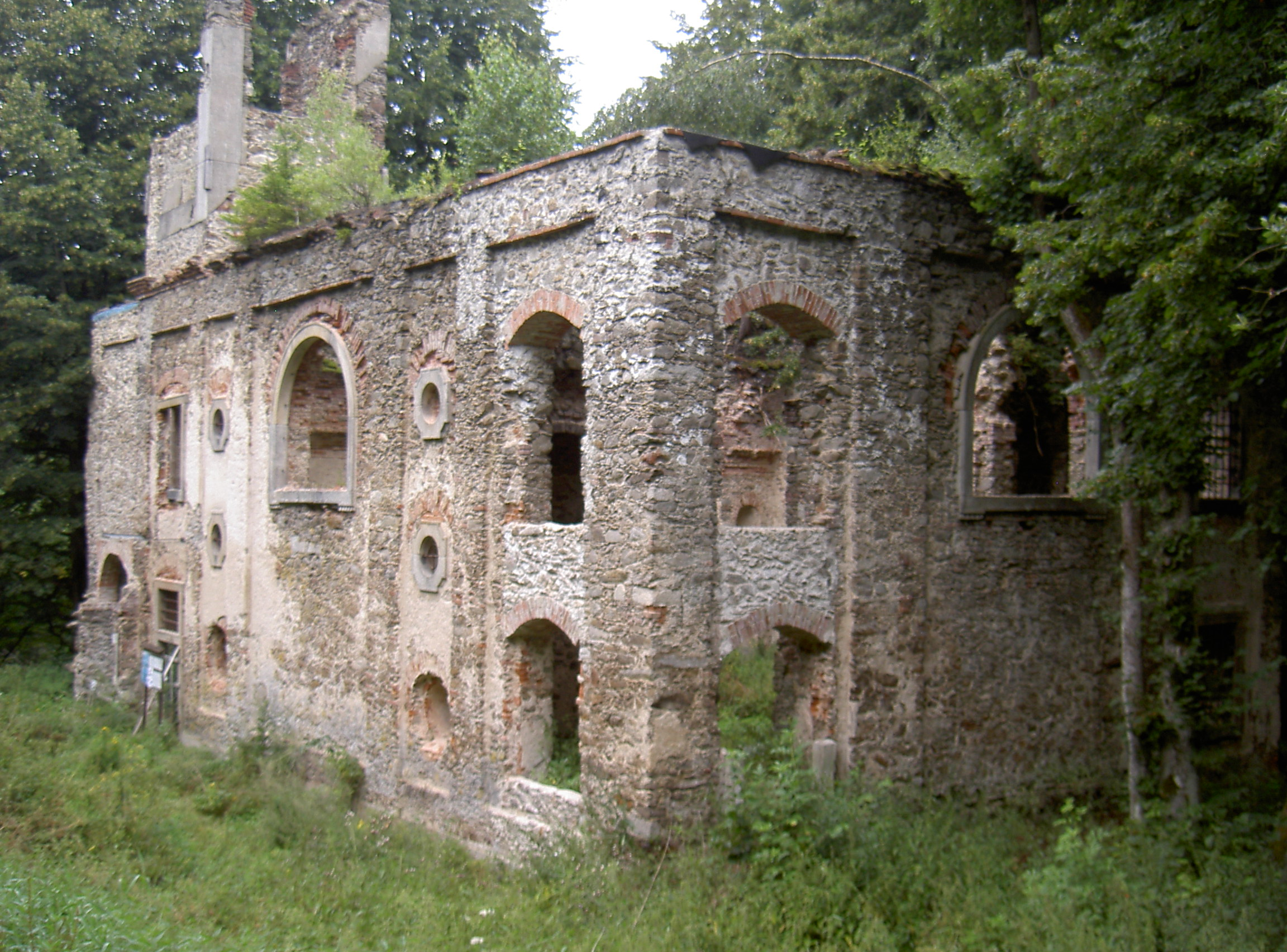 Church of Saint Apollonia in Svatá Apolena